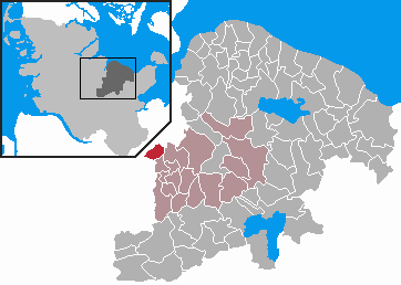 This map shows the area of the Gemeinde (municipality) Boksee in the Kreis (district) Plön, Schleswig-Holstein, Germany.